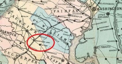 The strategic Orange and Alexandria Railroad passed through Fauquier County, Virginia, during the American Civil War. Fauquier County was the home of Col. John S. Mosby, who skirmished with Union cavalry at Warrenton Junction.